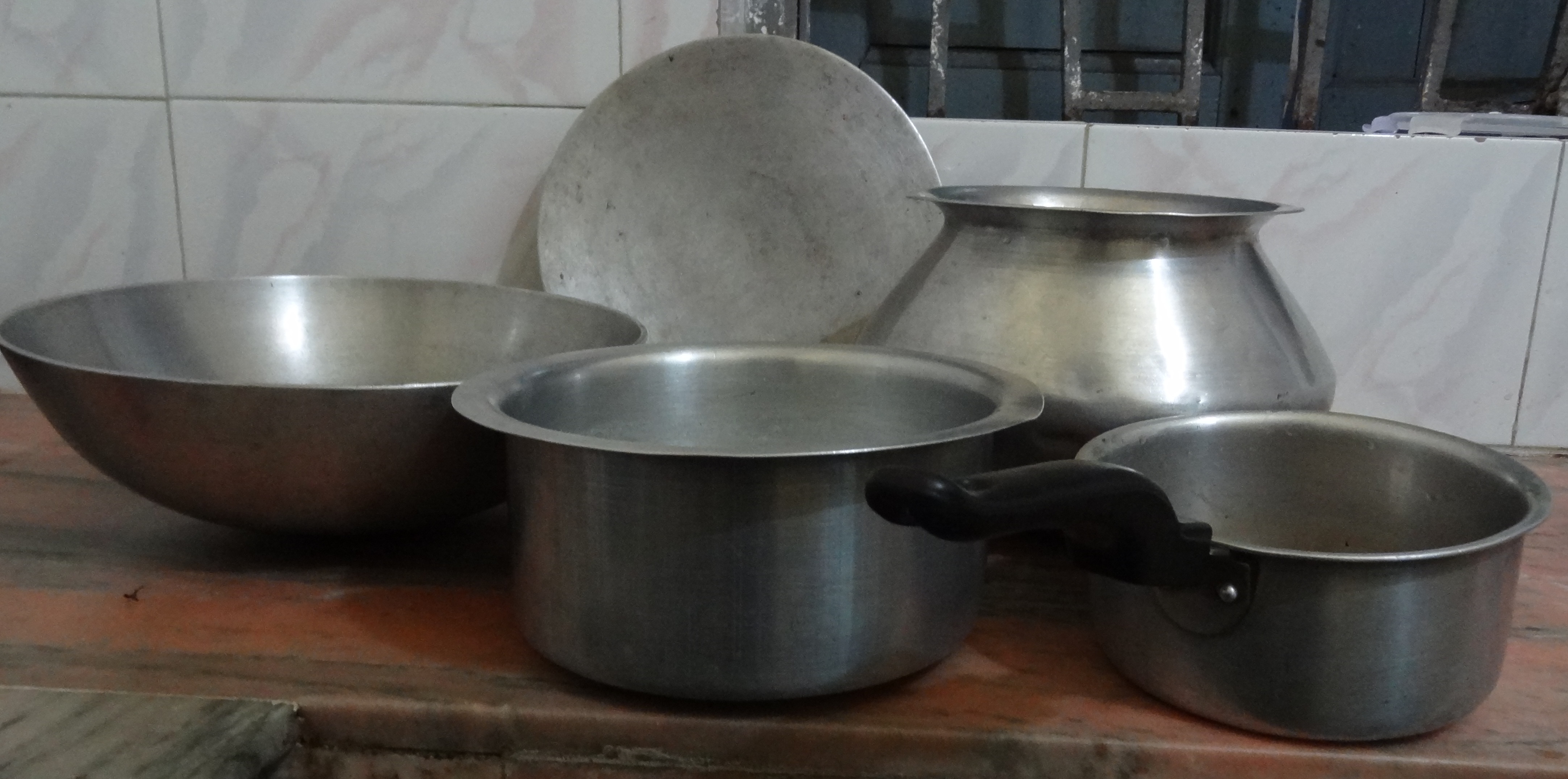 Different cooking utensils used in a Bengali household. From left, kadai, tawa, handi, tea dekchi and a dekchi.